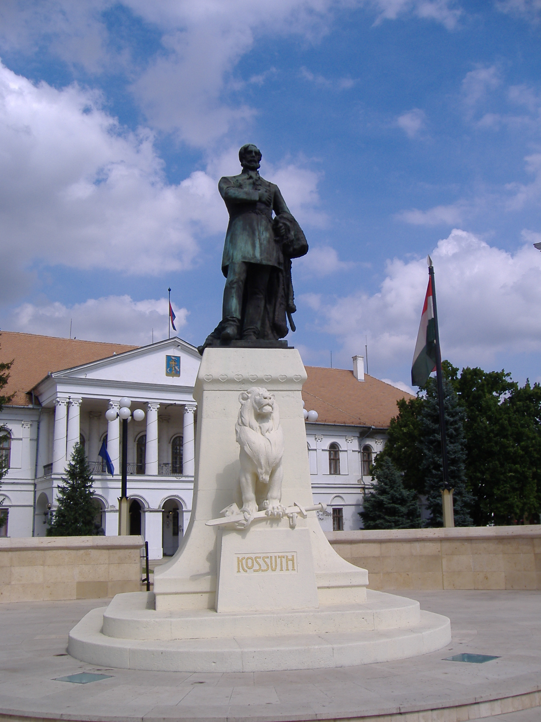 Statue of Lajos Kossuth, governor of Hungary in Makó, Hungary made by Ede Kallós.